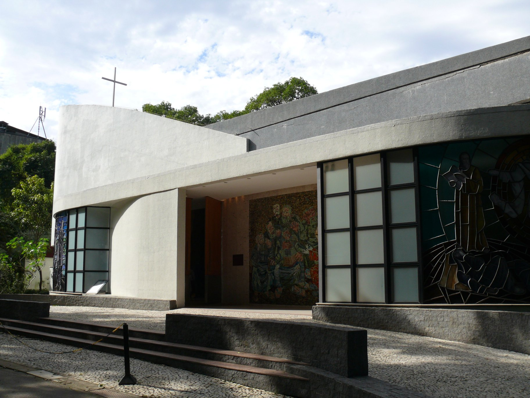 The church of the Sacred-Heart of the Pontifical Catholic University of Rio de Janeiro (Brazil).